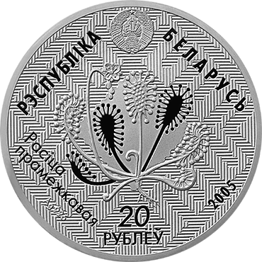 Environmental protection. Commemorative coins "Almanskіya Baloty ("Almanskiya swamps")